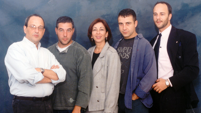 From left to right: David, along with his four siblings Ronal, Estty, Amnon and Gideon. from the film Love Inventory.